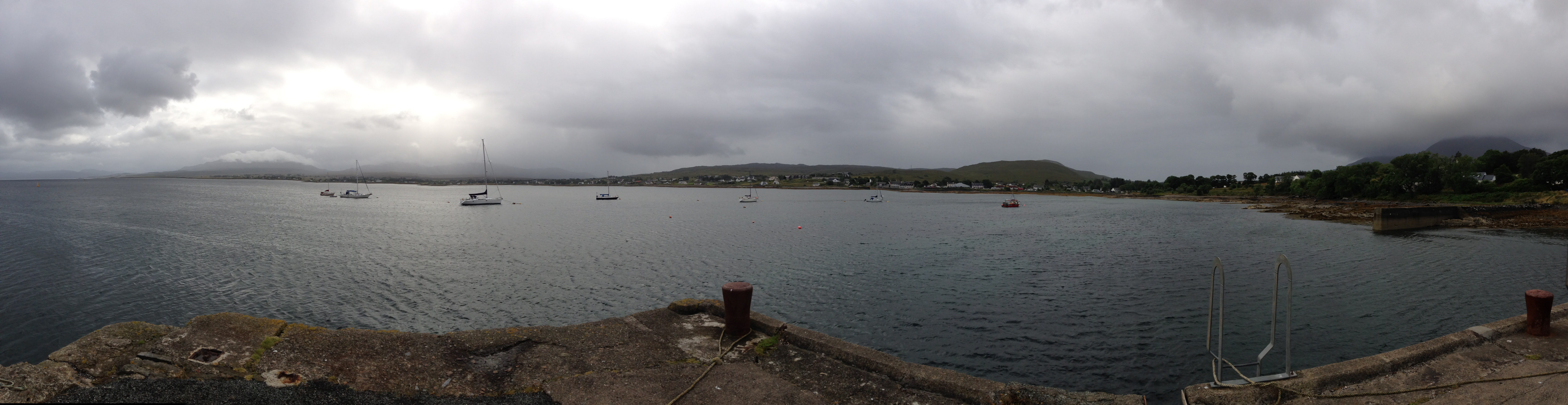 Taken Aug 17, 2013 on Isle of Skye